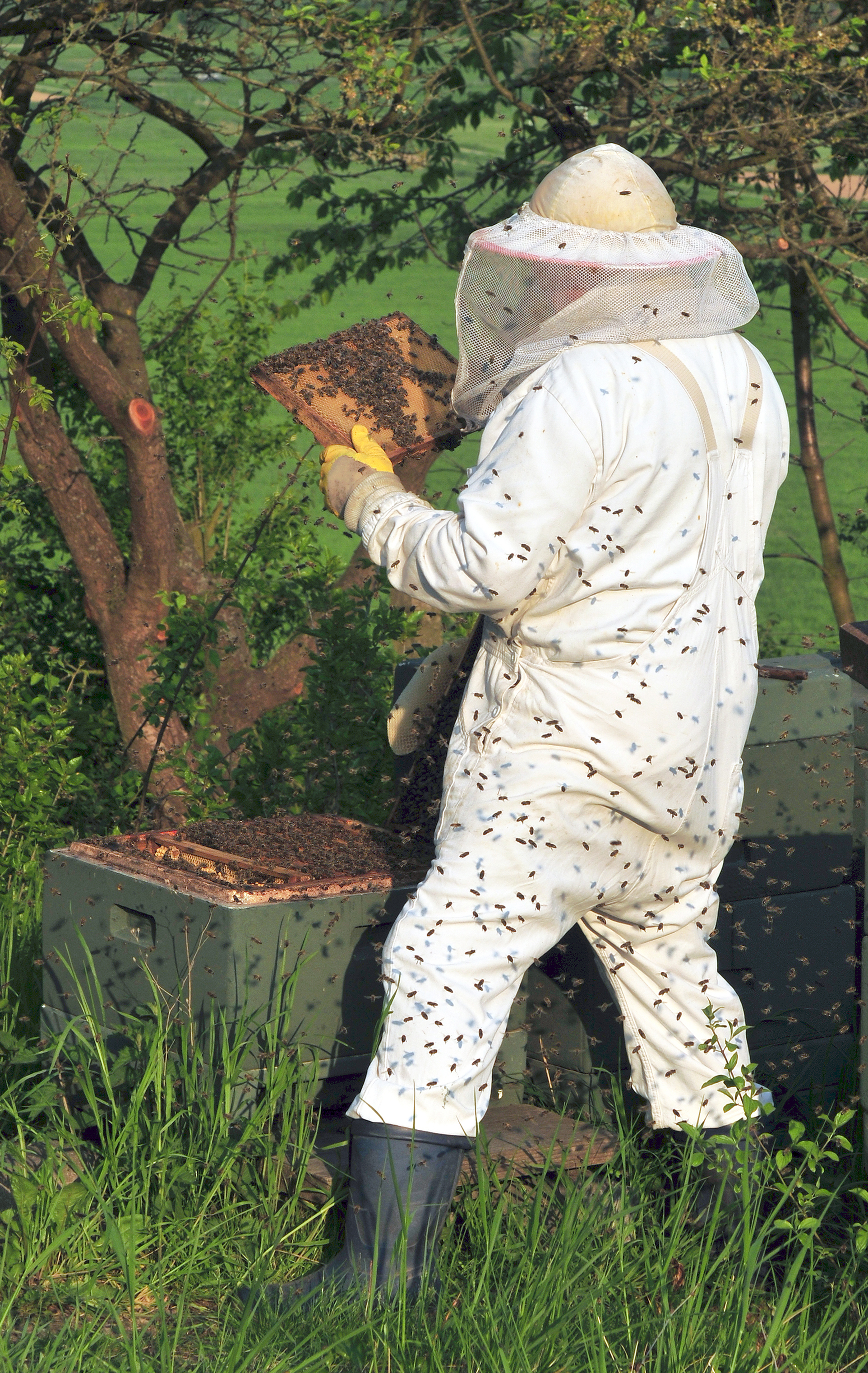 German Beekeeper in the district Hildesheim, Lower Saxony, Germany.